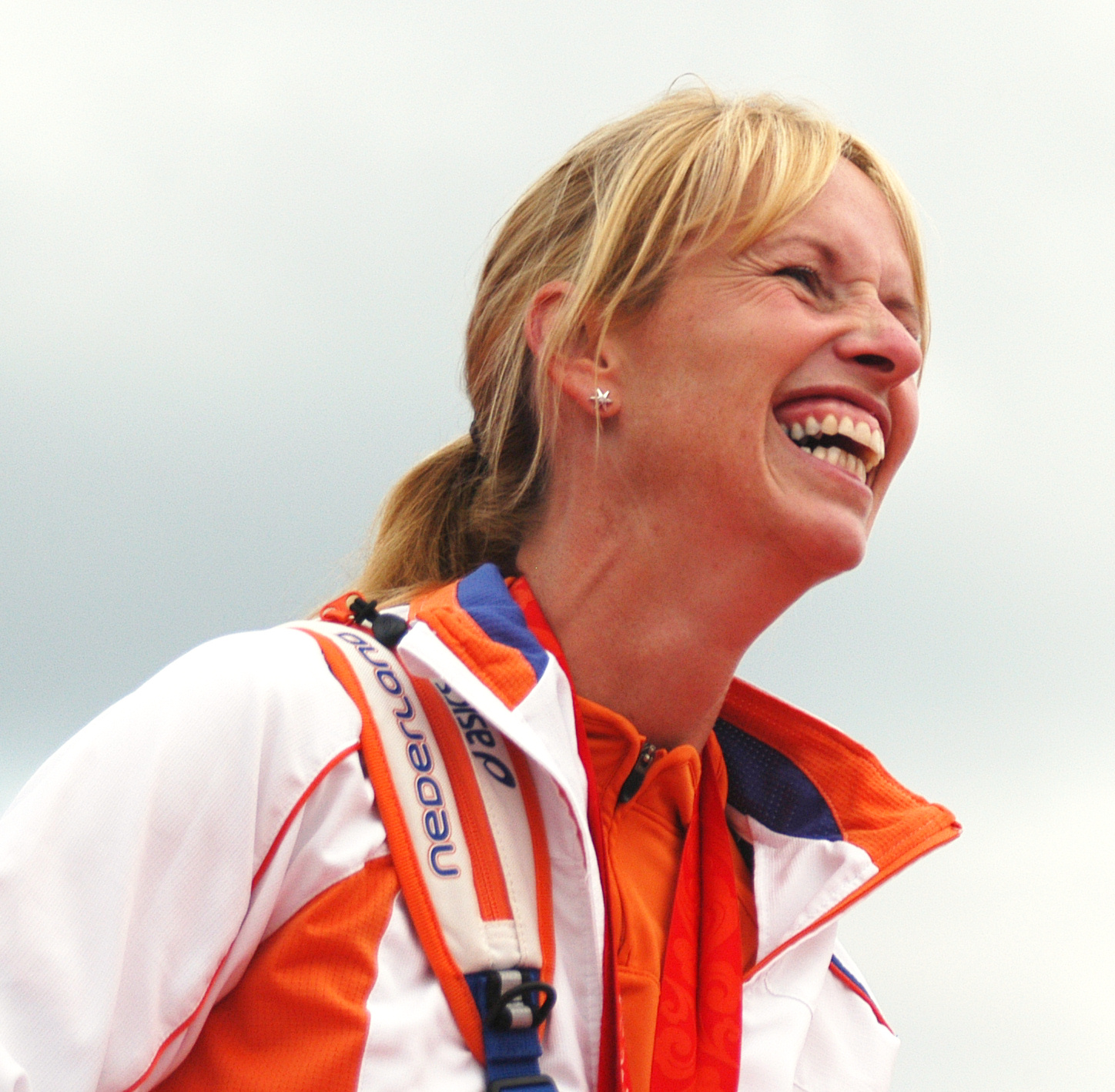 Anky van Grunsven at the Olympic welcome in the Olympic Stadium in Amsterdam, the Netherlands.